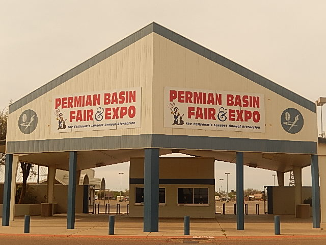 I took photo with Nikon camera of Permian Basin Fair sign at Ector County Coliseum.